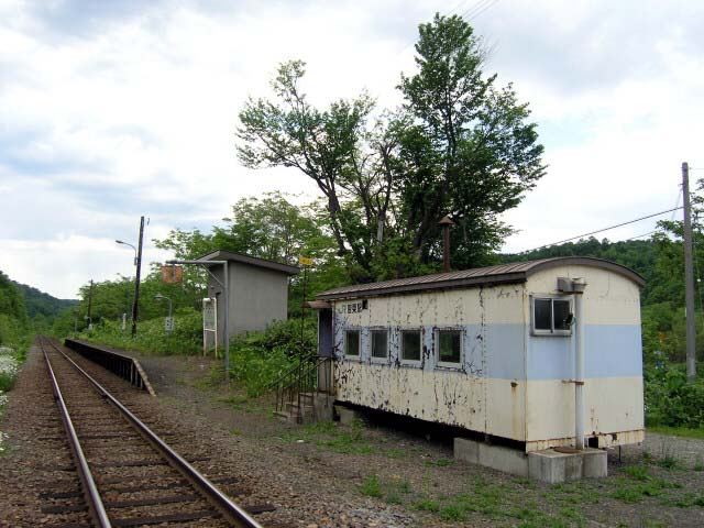 Chito Station